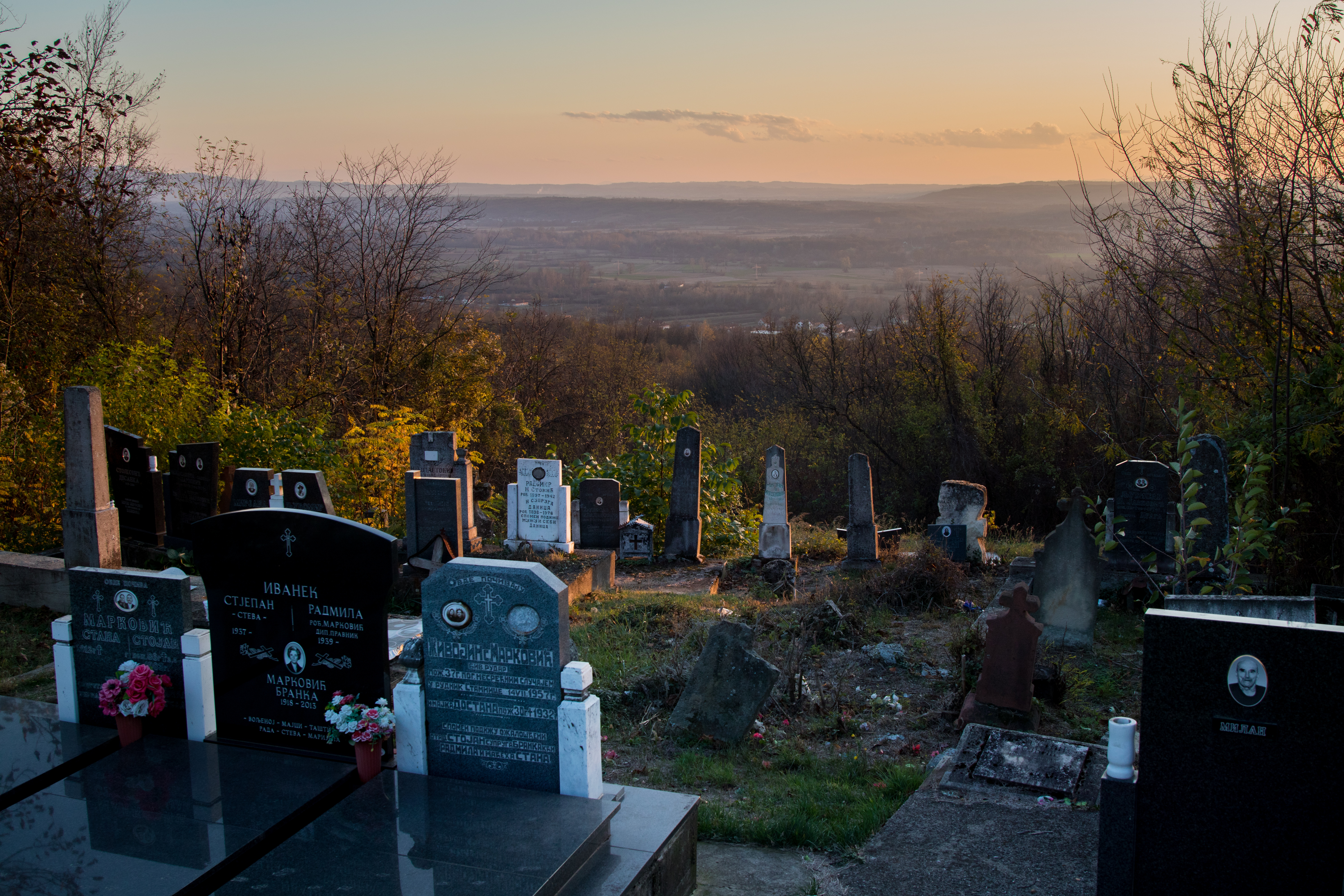 Lešće graveyard at sunset